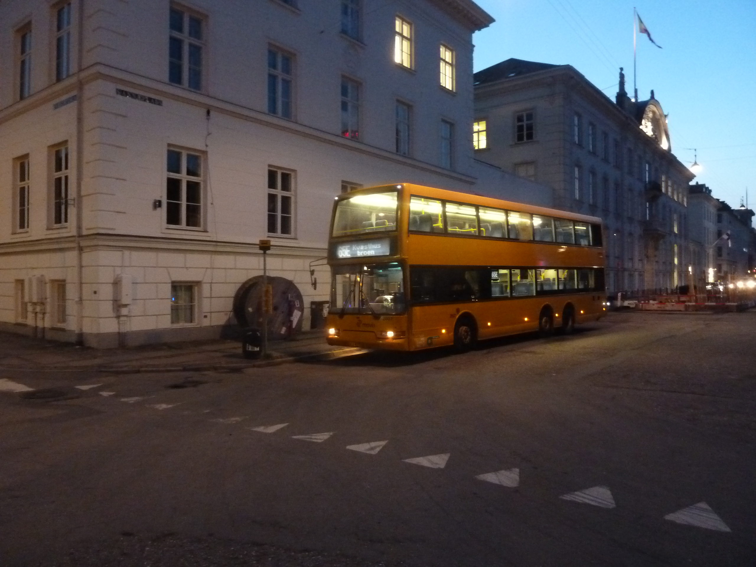 The very last bus line 65E on Sankt Annæ Plads at Kvæsthusbroen in Indre By in Copenhagen.